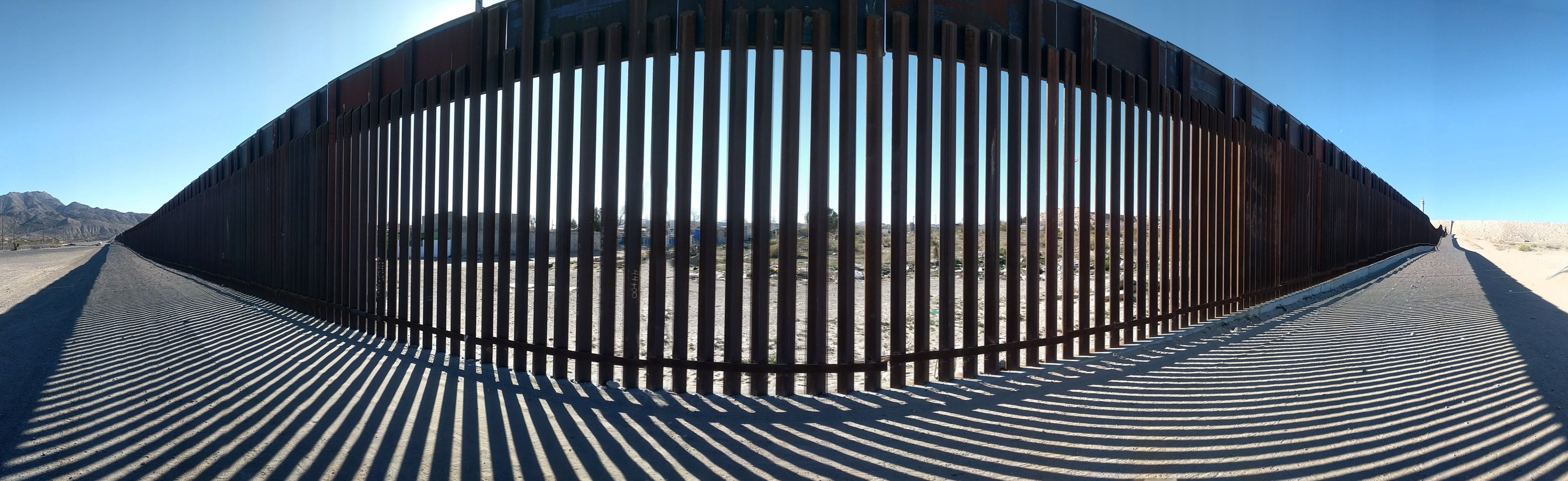 Panoramic view from the US side of the new (2017) border wall between Sunland Park, New Mexico, United States, and Anapra, Chihuahua, Mexico. The plan to upgrade this section of border barrier from a chain-link fence was made under the Obama administration.